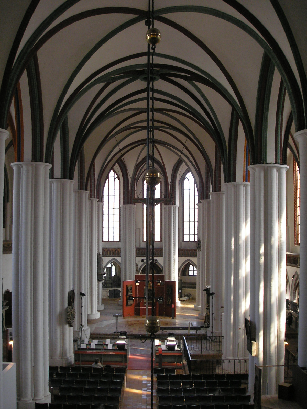 Image of the Nikolaikirche, Berlin